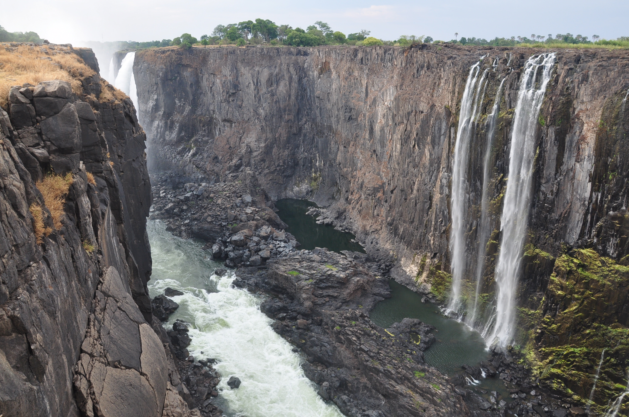 Low season for Victoria falls in 2011